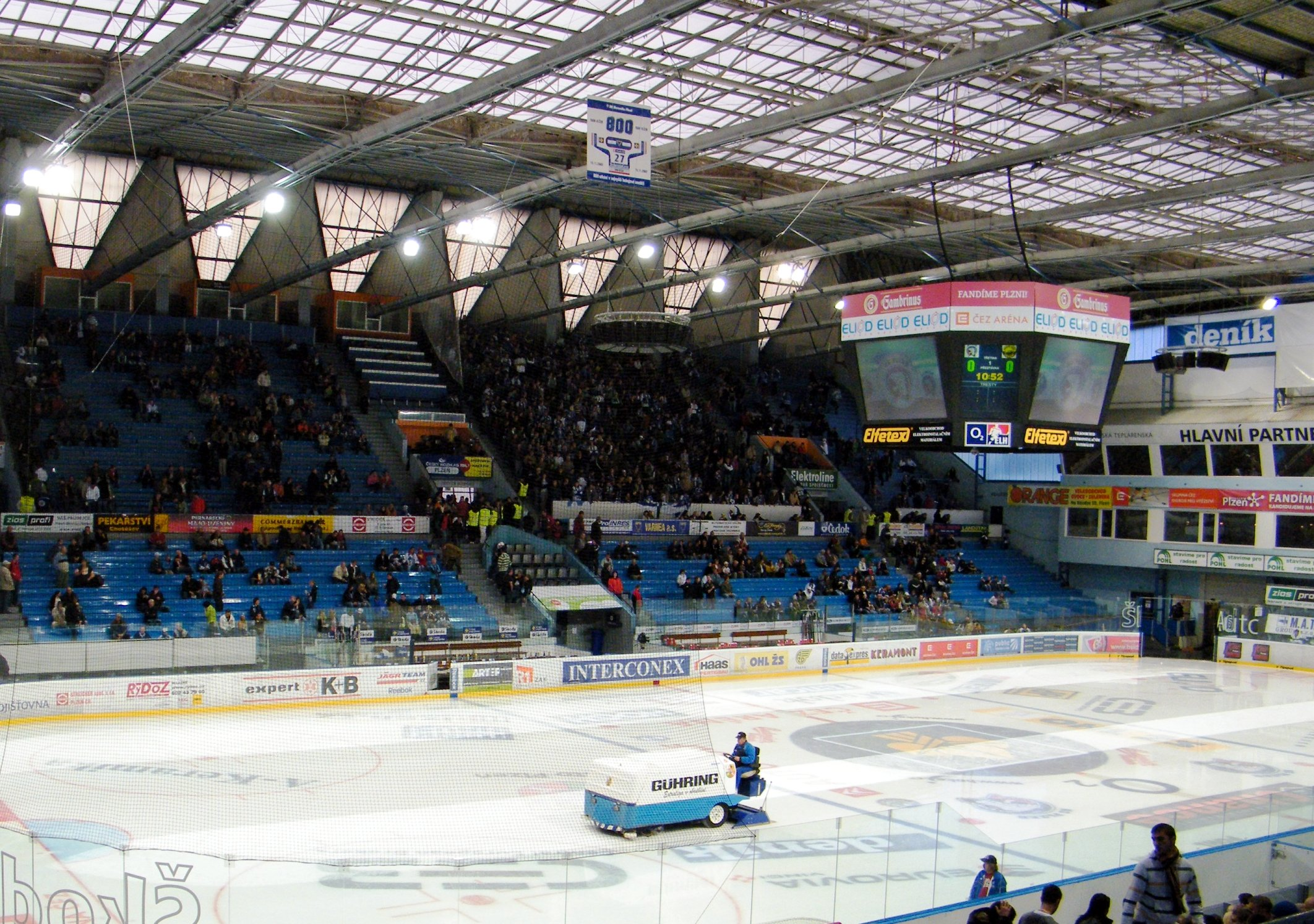 CEZ Arena Plzen, HC Plzen 1929 vs. HC BENZINA Litvinov